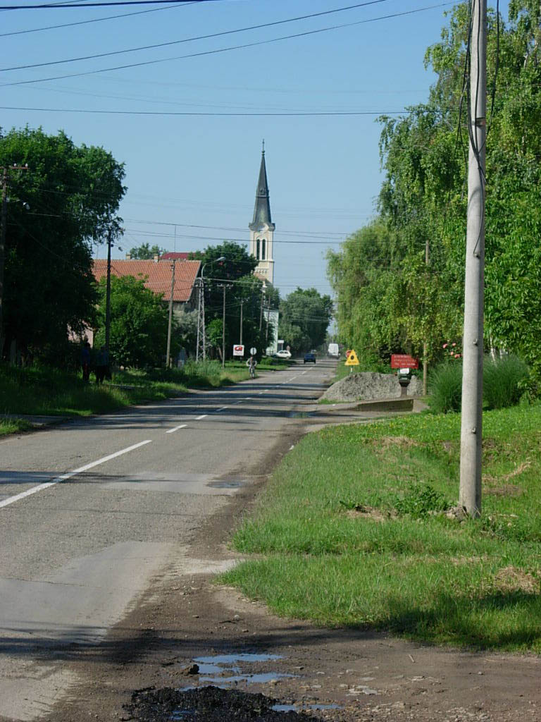 The Saint Anthony Padovanian Catholic Church in Bečej.